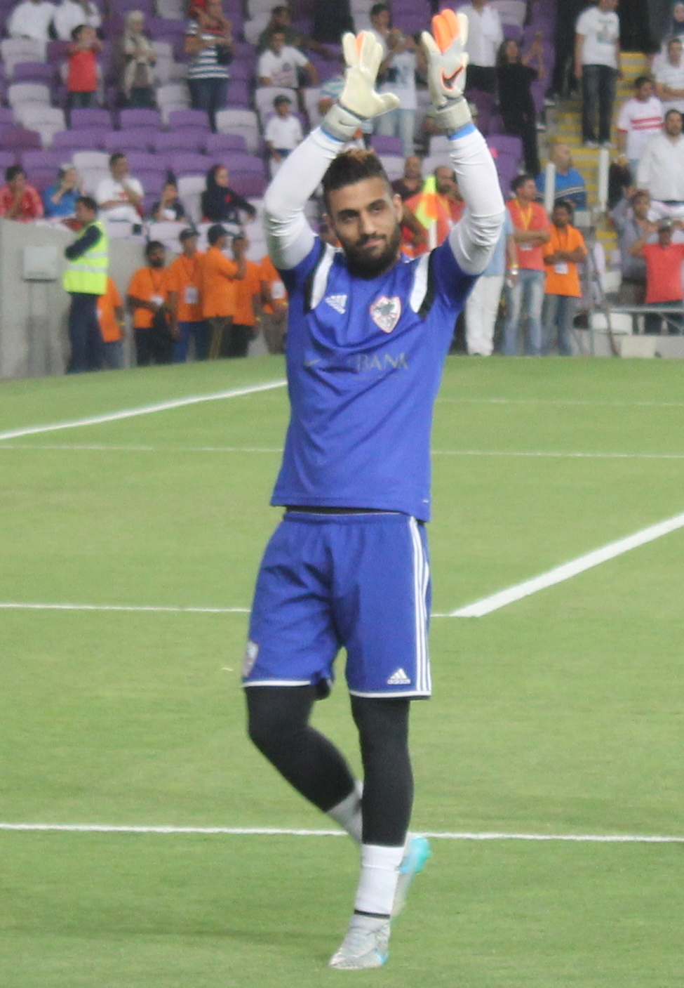 zamalek sc goal keeper